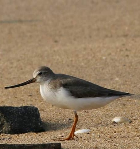 Terek Sandpiper Xenus cinereus, Ponnani, Malappuram district, Kerala, India